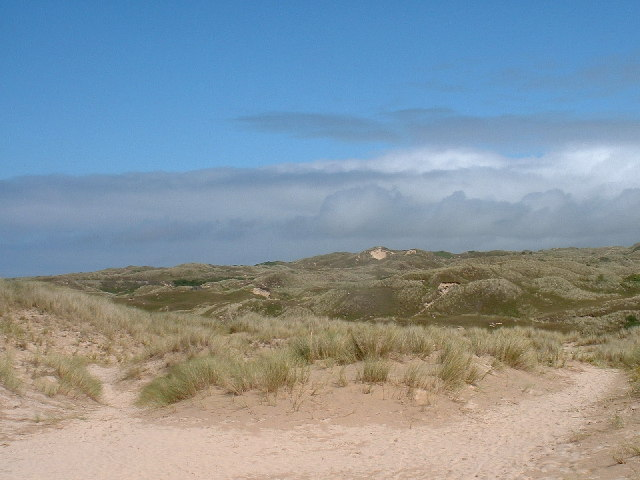 Upton Towans. Dunes behind the long beach on the eastern side of St Ives Bay.